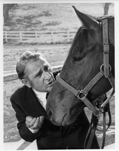 Photo of Ralph Manza from the television program Banacek, 1974